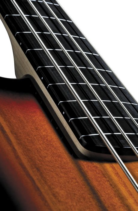 Close up of my own fretless bass